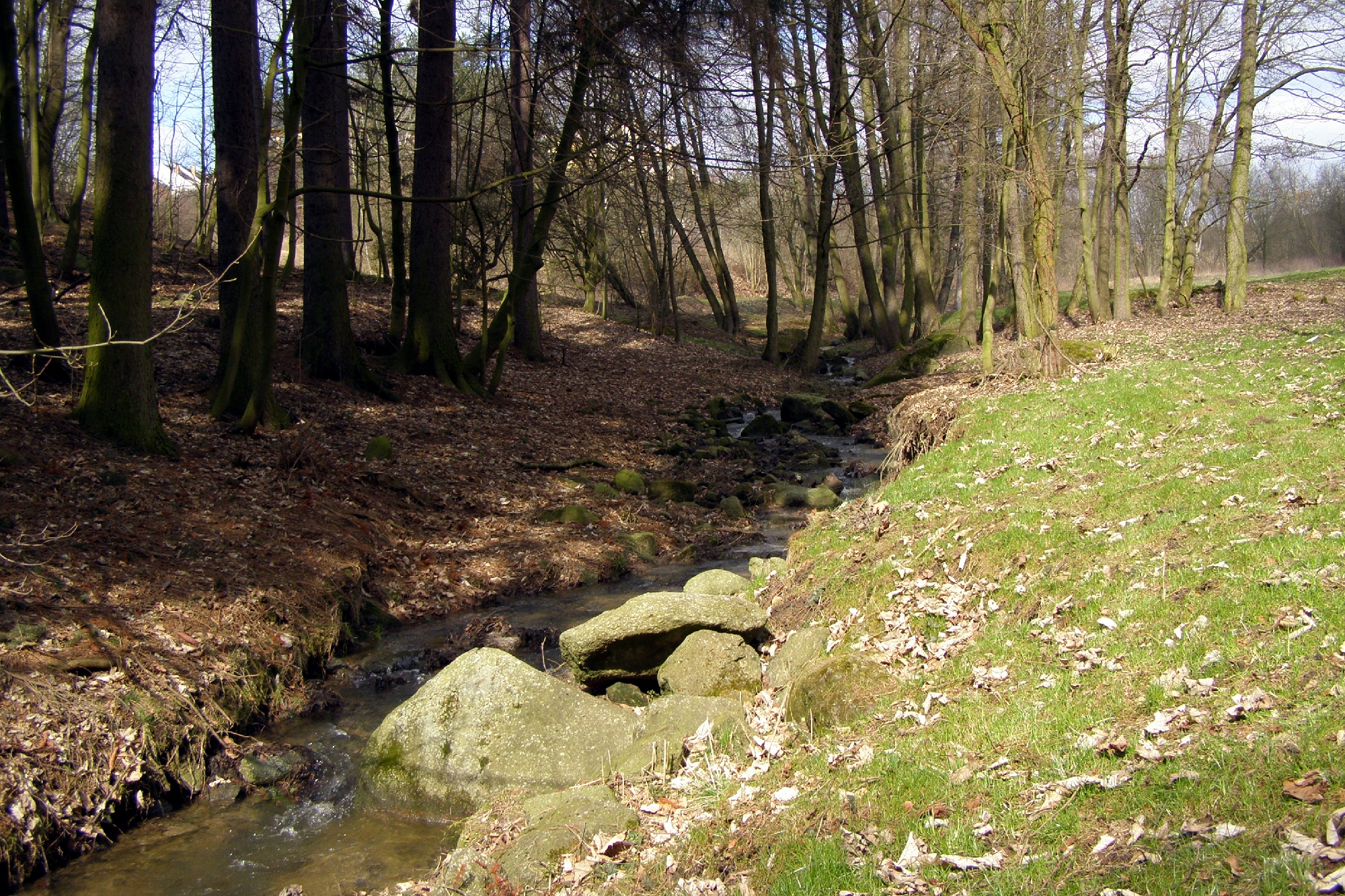 Třebíč-Týn. Týn stream